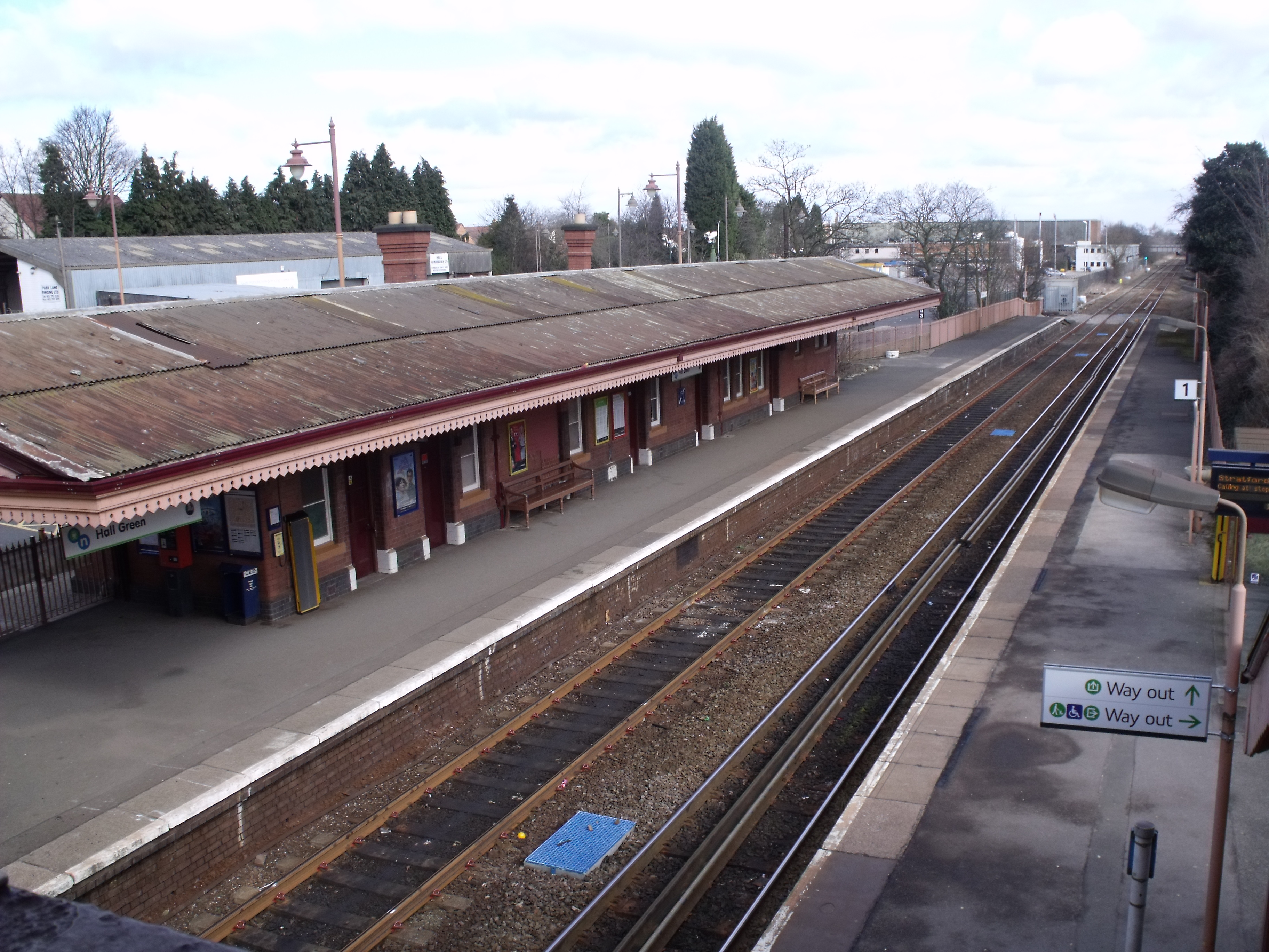 This is my local train station - Hall Green. I went here to get a train to Henley in Arden, on a lovely Sunday afternoon. It is operated by London Midland and opened in 1908. Previously used by Central Trains (previous francise holders) and Regional Railways. I've been coming here for around 20 plus years. I got to the station and missed the train I wanted to get. I miscalculated when to go out. That happened last year when I went to Stratford (got to station, missed train). Like that time, I went home to wait for the next train.